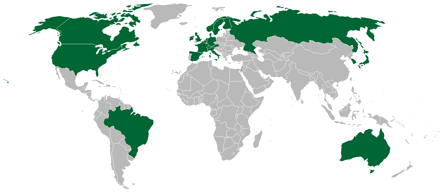 Map with members of Paris Club